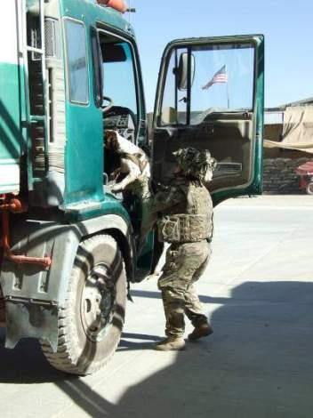 Provides a compact versatile aid to searching all types of vehicles for the presence of weapons, explosives and ammunition.